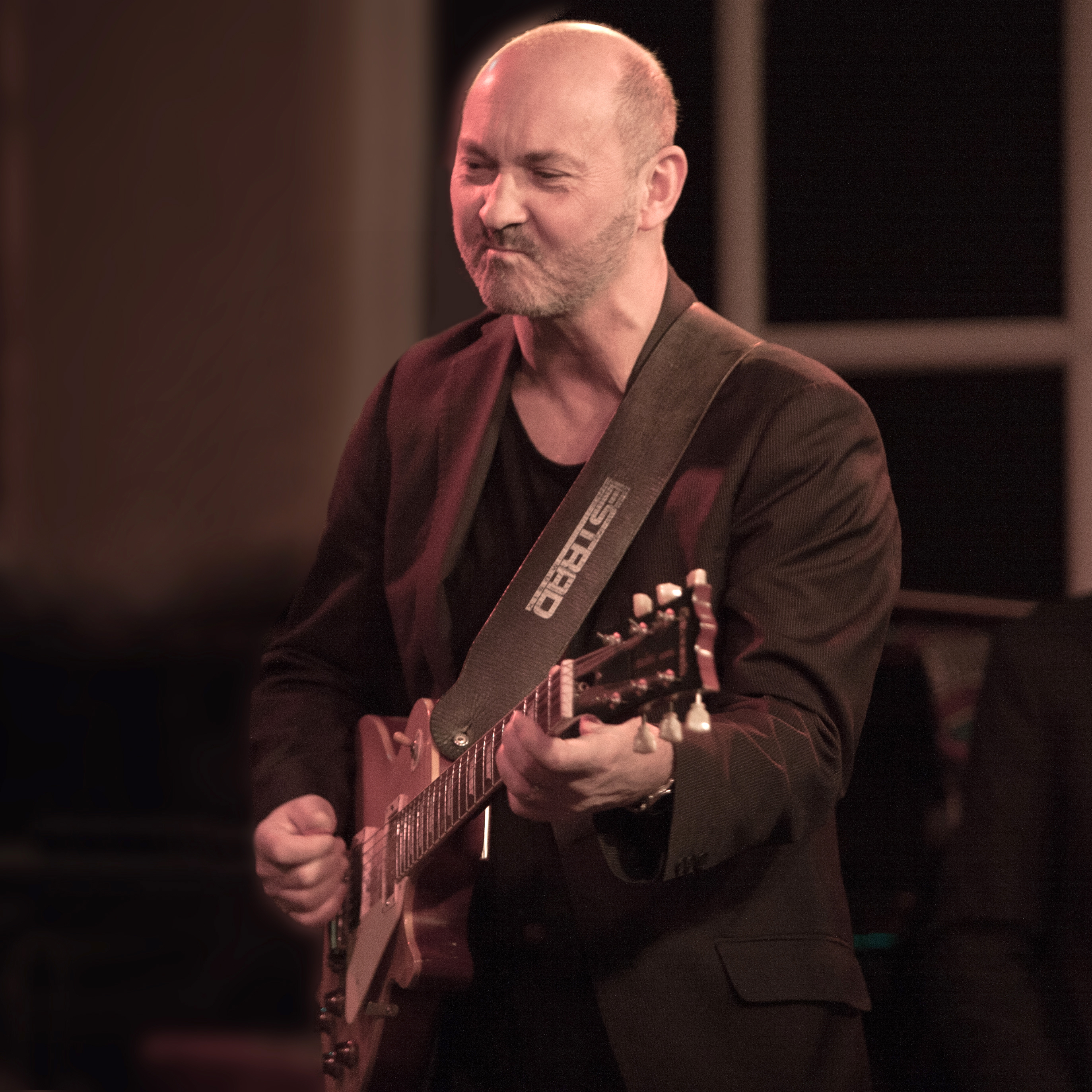 Thomas Arnesen at HiJazz, Uppsala, December 2011